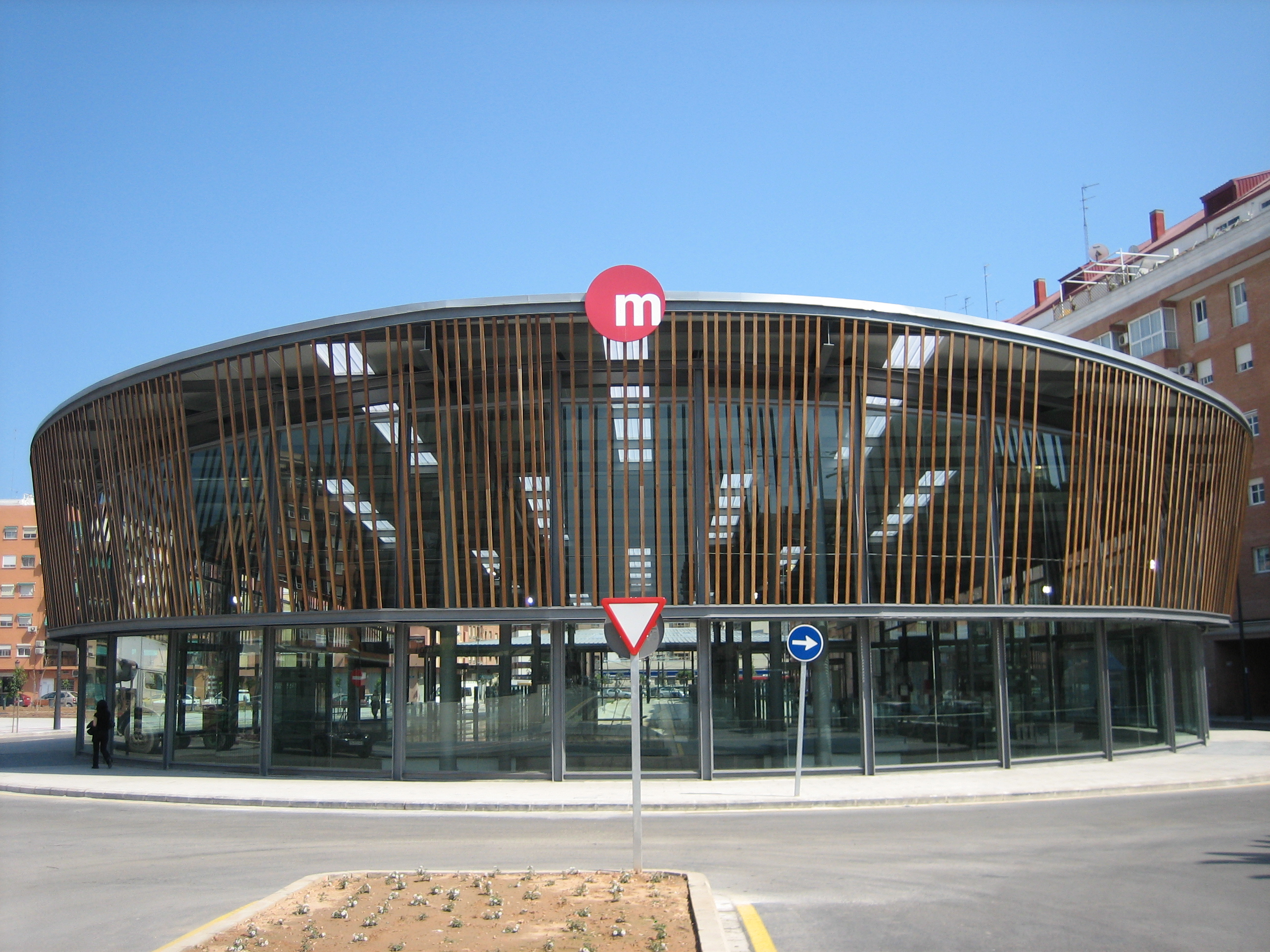 Exterior metro station in Valencia Marítim-Serradora.